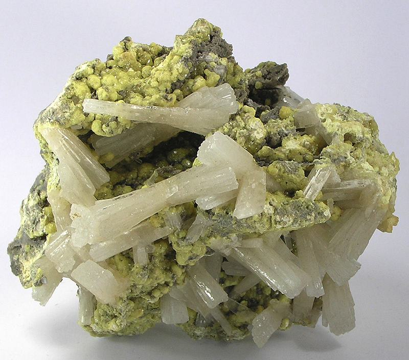 Celestine, Sulphur Locality: Agrigento, Agrigento Province, Sicily, Italy (Locality at ) Size: cabinet, 15 x 13 x 10 cm Celestine With Sulfur In this update are other classic old European association specimens out of the Rolf Wein Collection of Germany, where what is usually the "accent" mineral is instead the star. Here again, where usually the sulfur crystals get all the attention from the loclaity, here, the sulfur is a druse of microcrystals, and the pizzazz is in the large, elongated, gleaming celestites � measuring to 5 cm. They stand out strikingly from the surface of the sulfur-covered matrix, and lie across small pockets, exposing them all around. A classic, but in rarely fine form, for celestite from this locality.